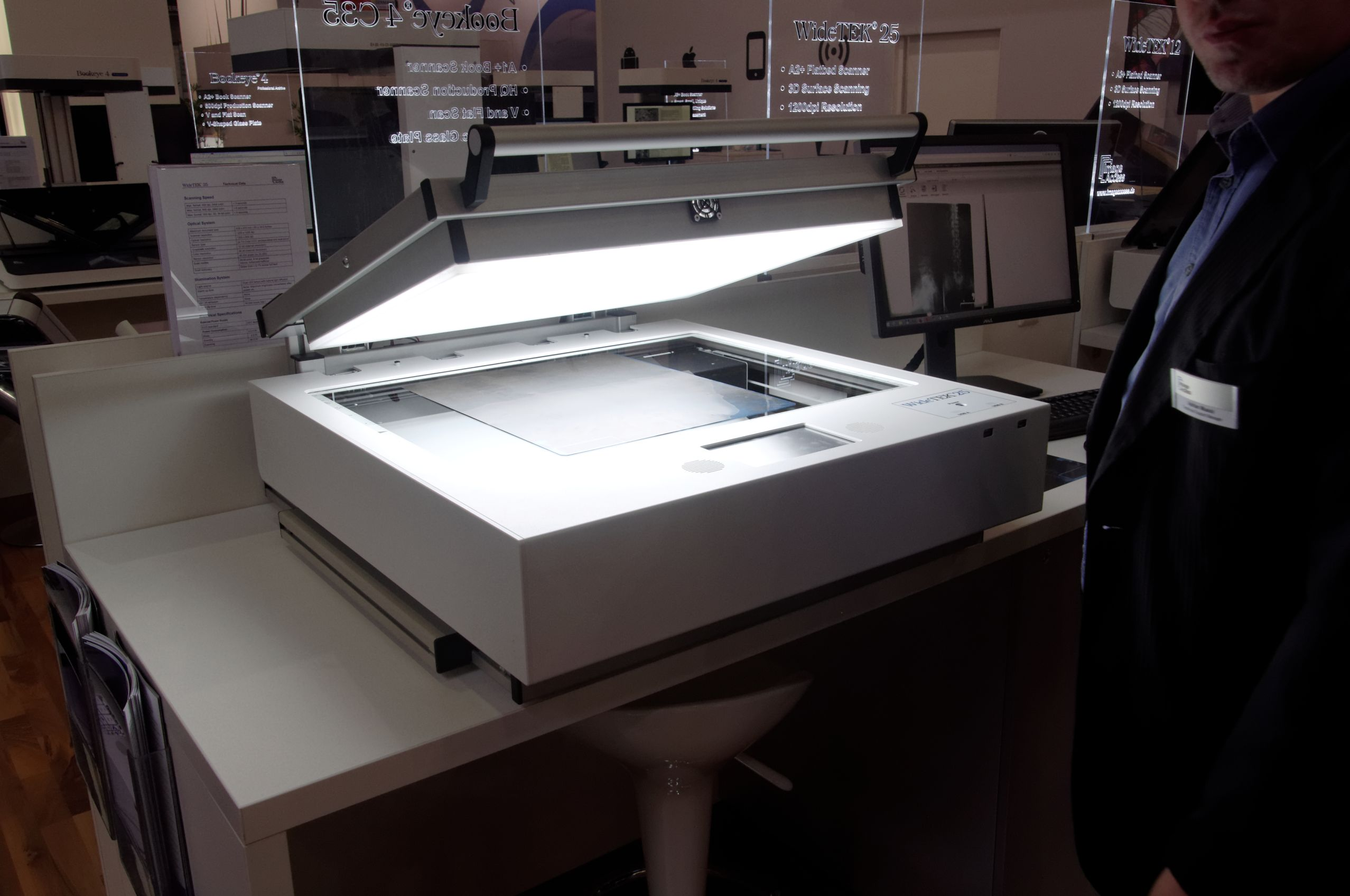 WideTEK 25 on CeBIT 2015